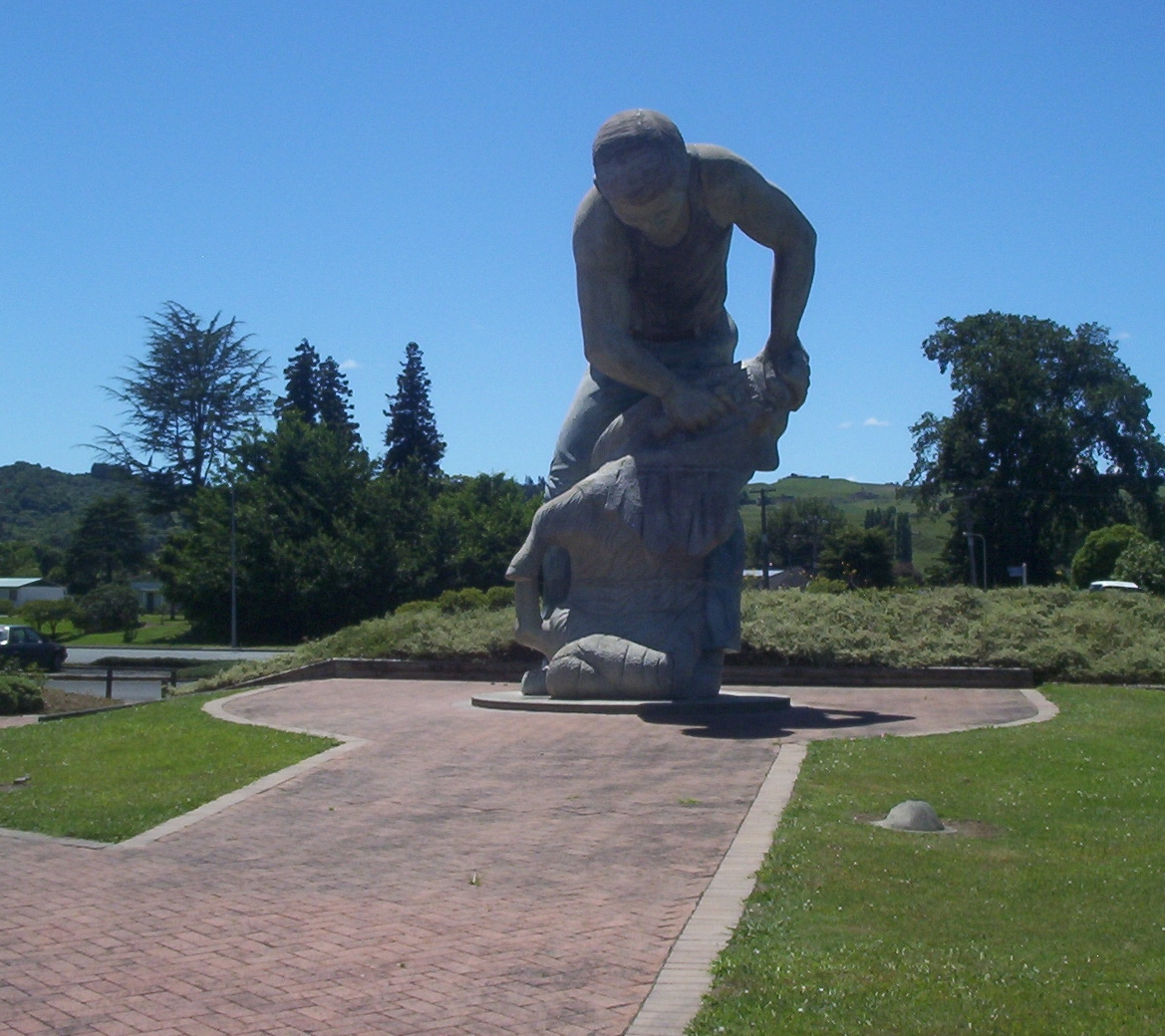 Statue celebrating the shearing industry in Te Kuiti, New Zealand